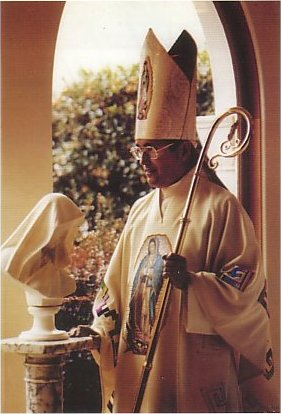 Alphonse Gallegos is shown in his Pontifical vestments which depict his devotion to Our Lady of Guadalupe